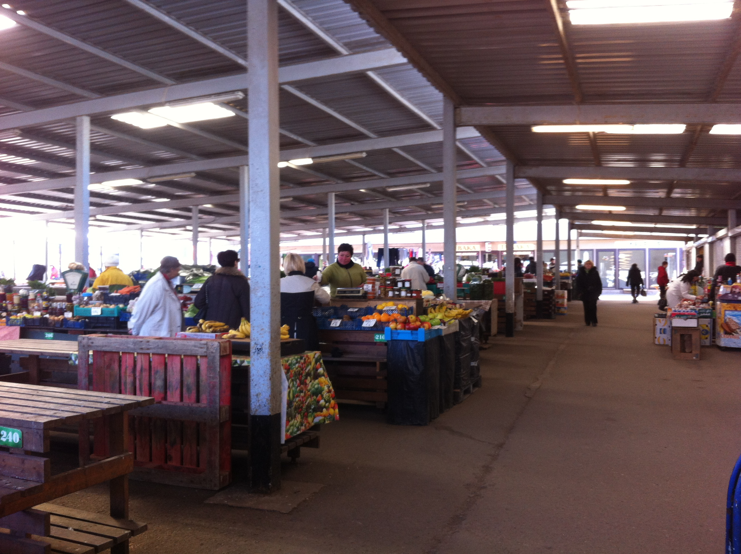 Keldrimäe, Tallinn, Estonia